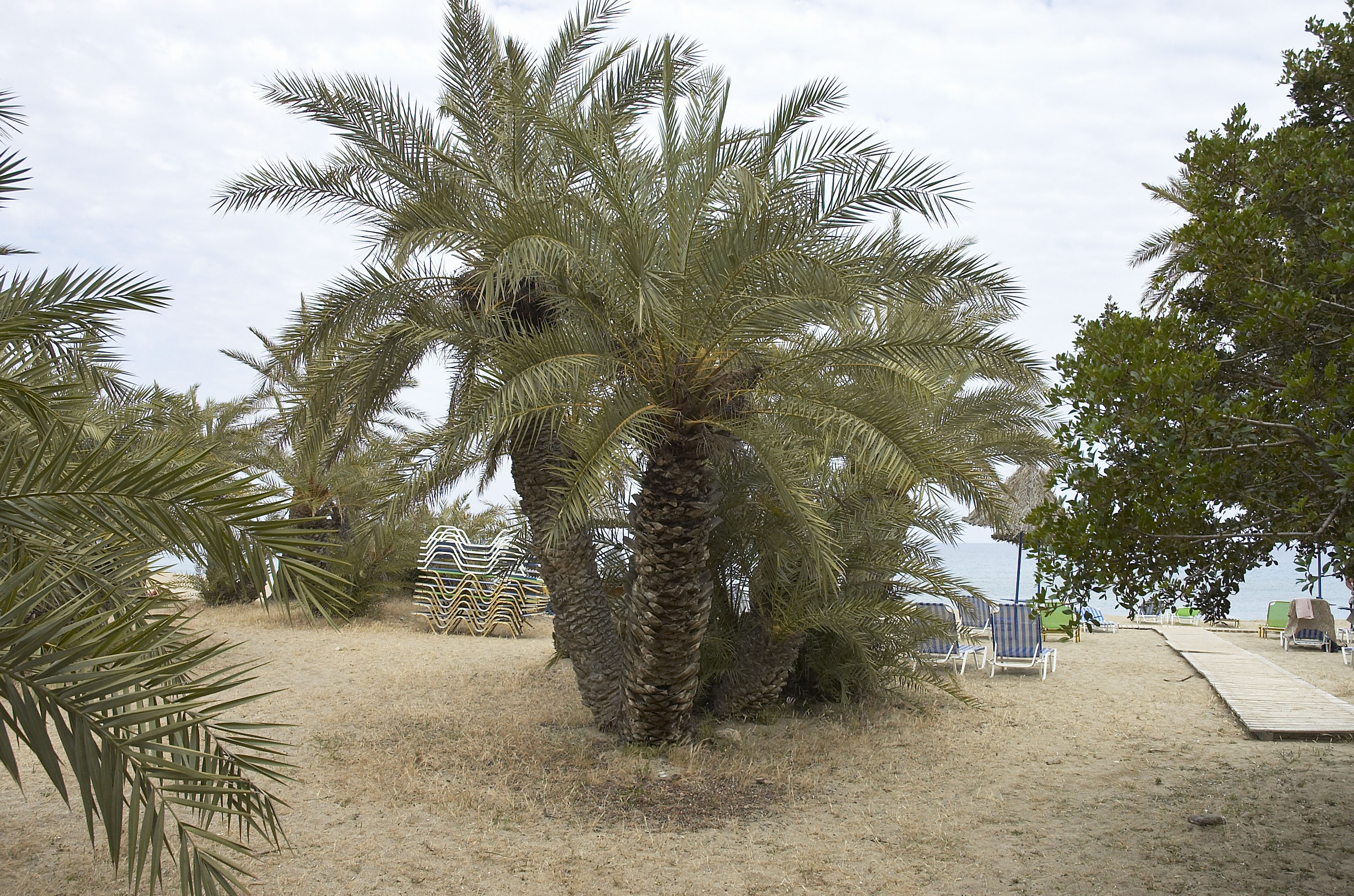 Phoenix theophrasti at the beach in Vai, Crete